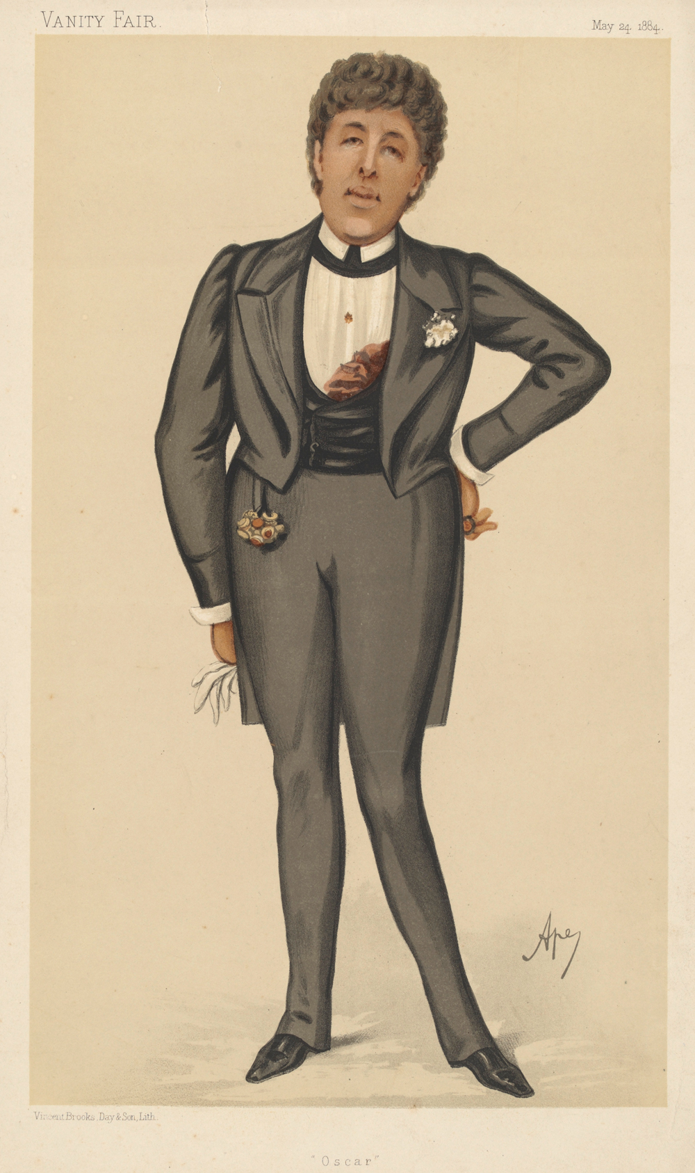 Caricature of Oscar Wilde (1854-1900). Caption read "Oscar".